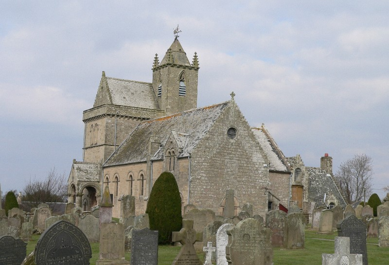 Chirnside Parish Church, Chirnside, Scottish Borders, Scotland